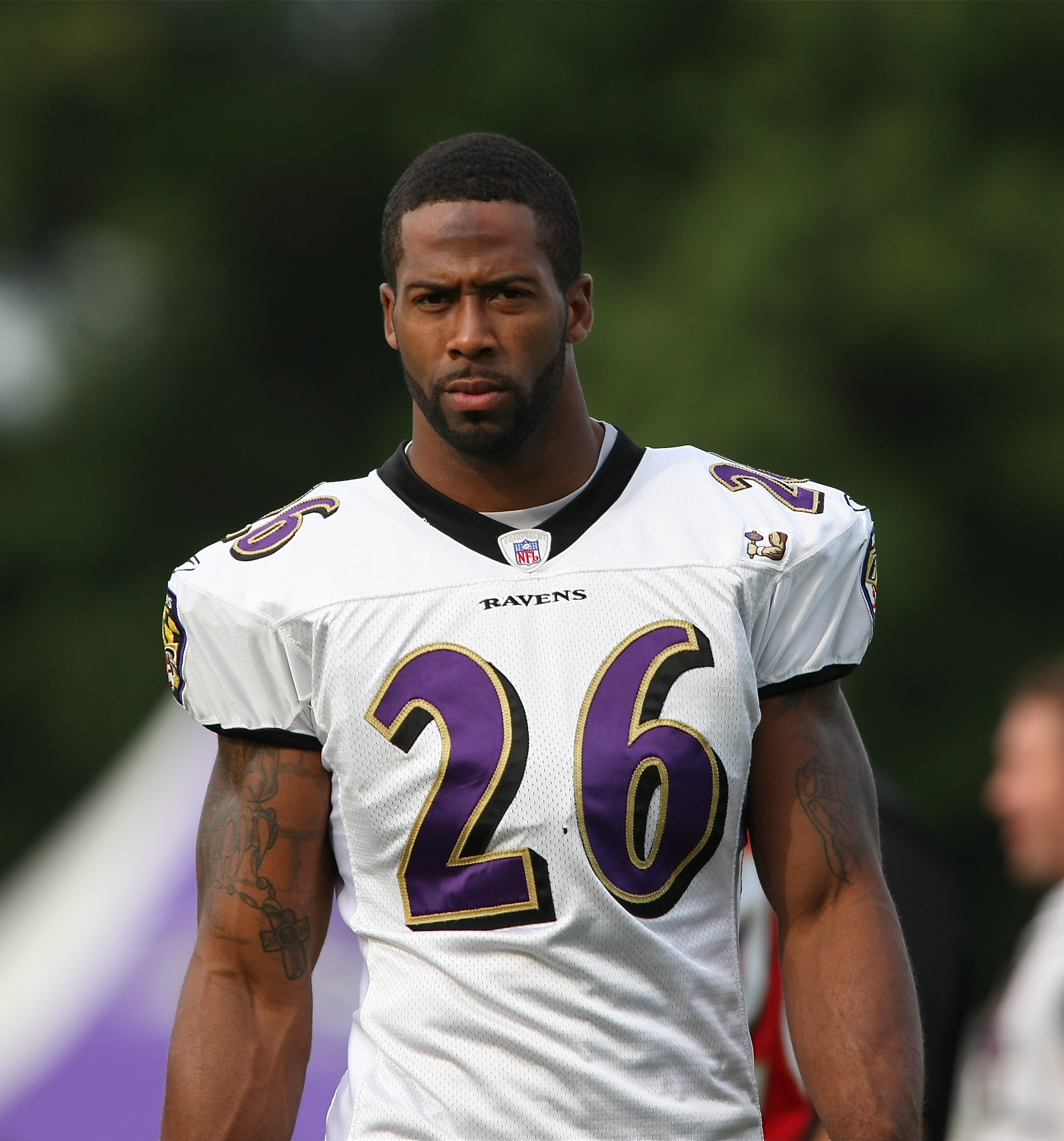 Dawan Landry at Raven Training Camp August 13, 2008